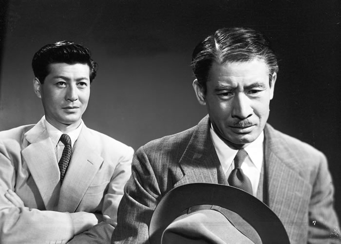 Ryō Ikebe and Sō Yamamura in Gendai-jin (現代人) directed by Minoru Shibuya - 1952